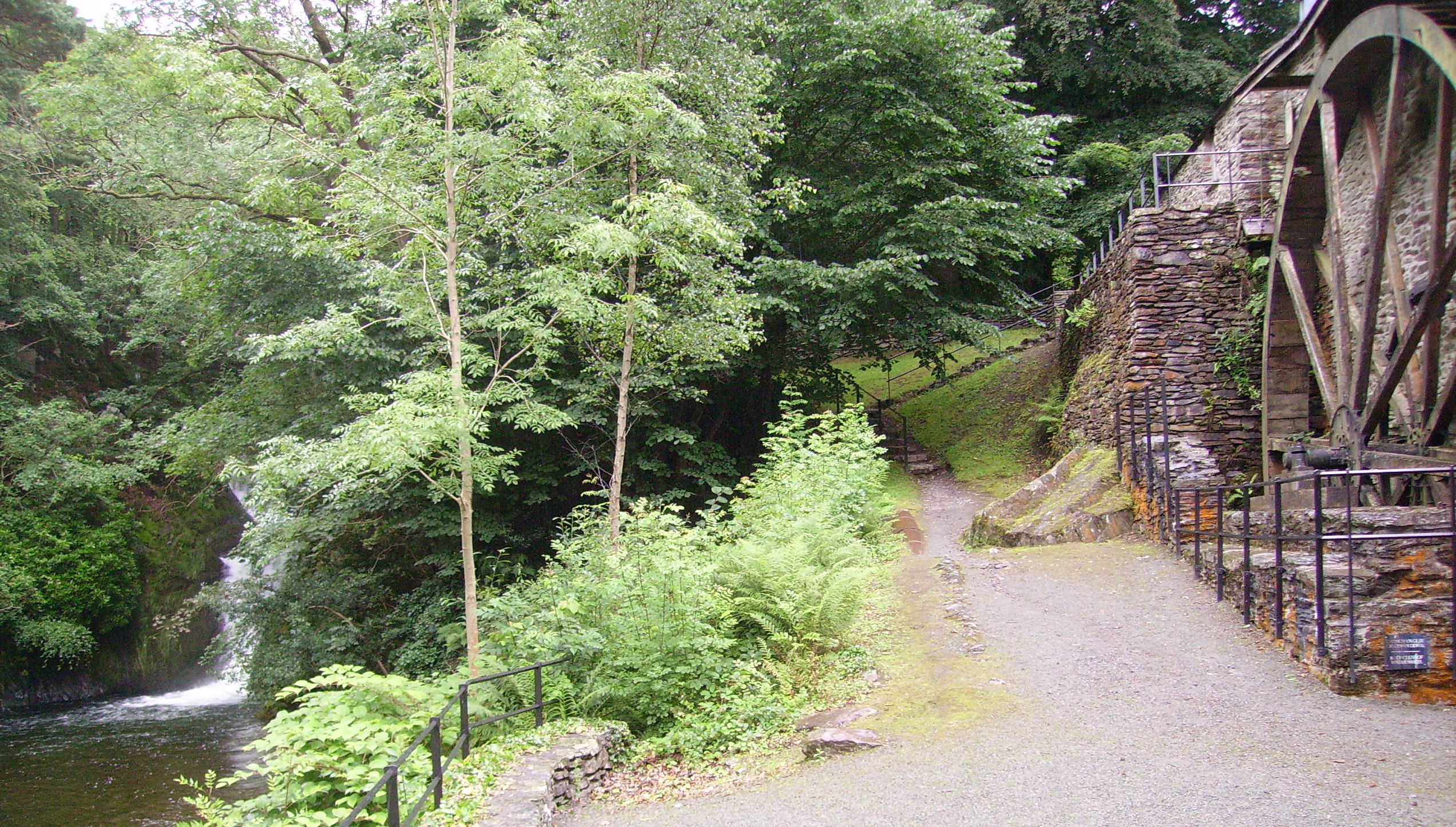 view of Dyfi Furnace, Wales